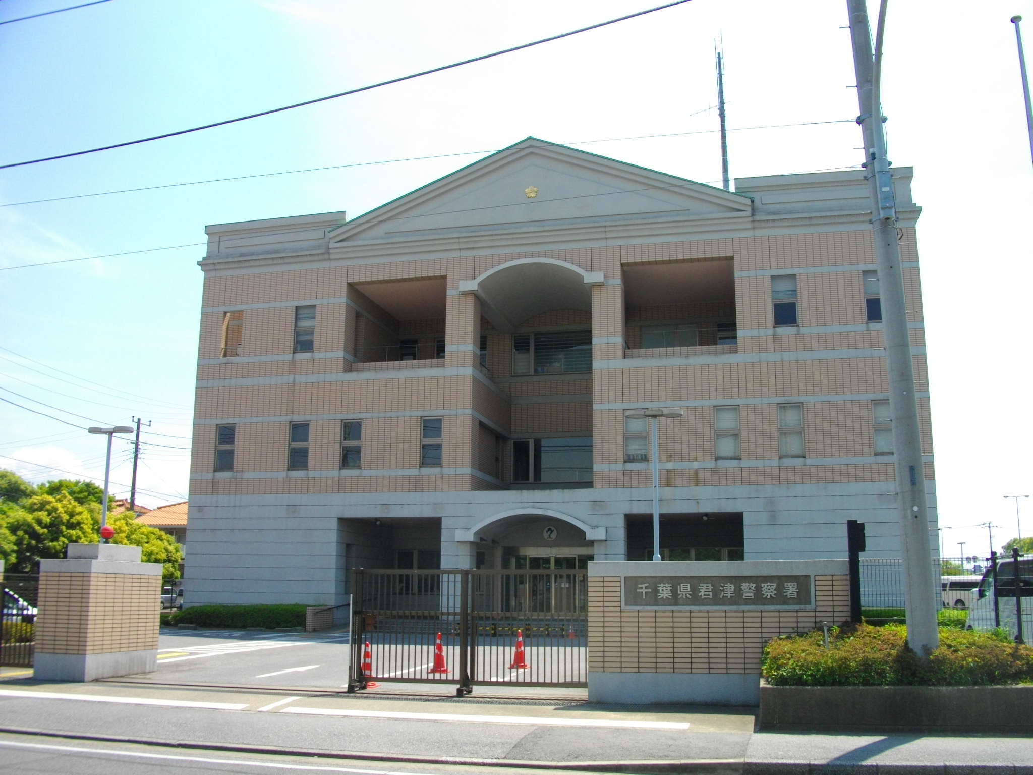 Kimitsu Police Station